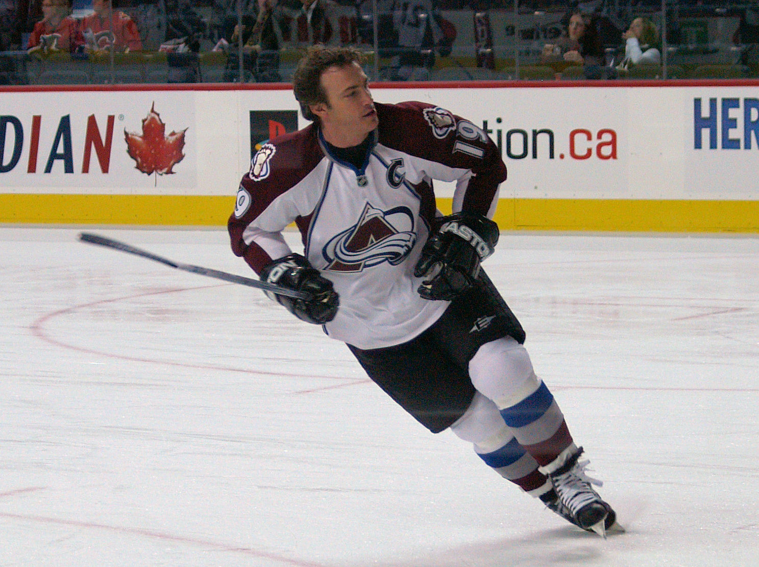 Joe Sakic warming up before a game. Calgary, Alberta